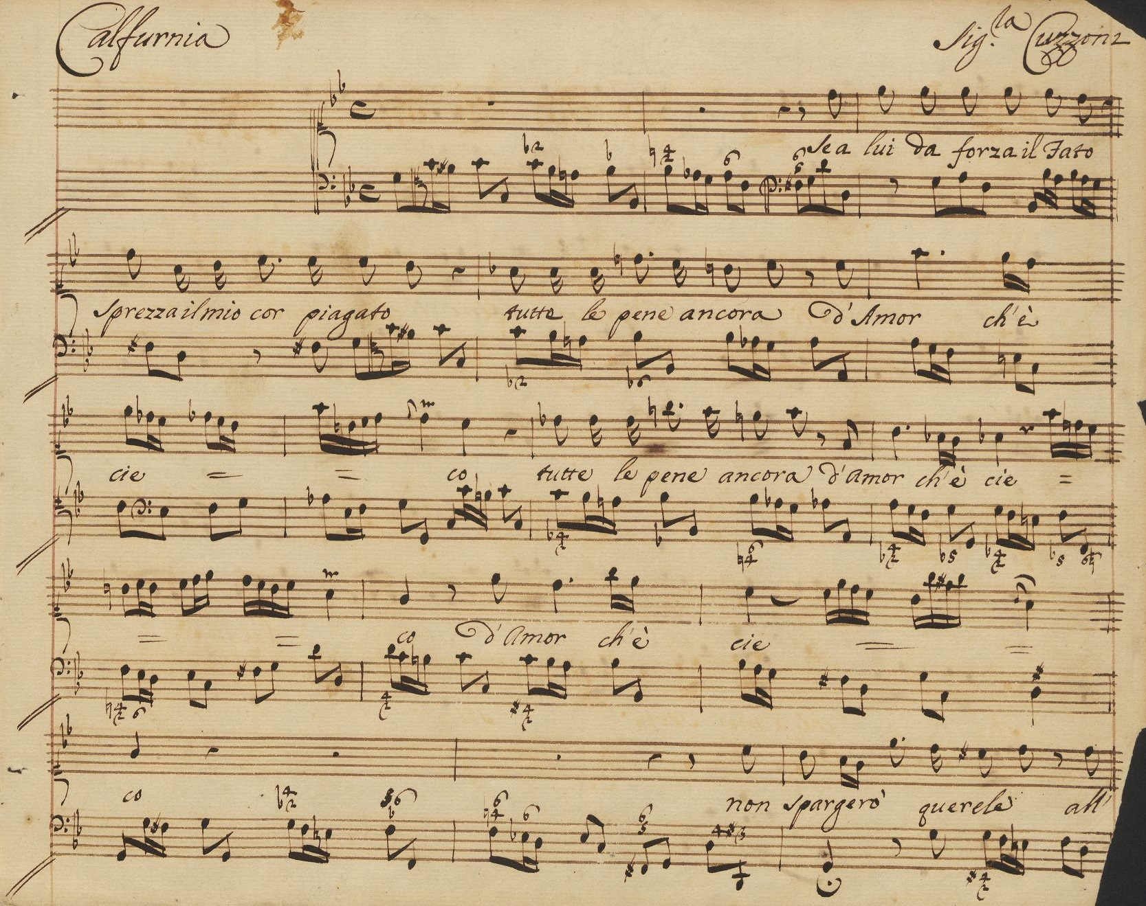 Manuscript music for Calfurnia, [ca. 1724], by Giovanni Bononcini (1670-1747). First page. Tears are present in original. M1505.B724 A85 1727, Houghton Library, Harvard University